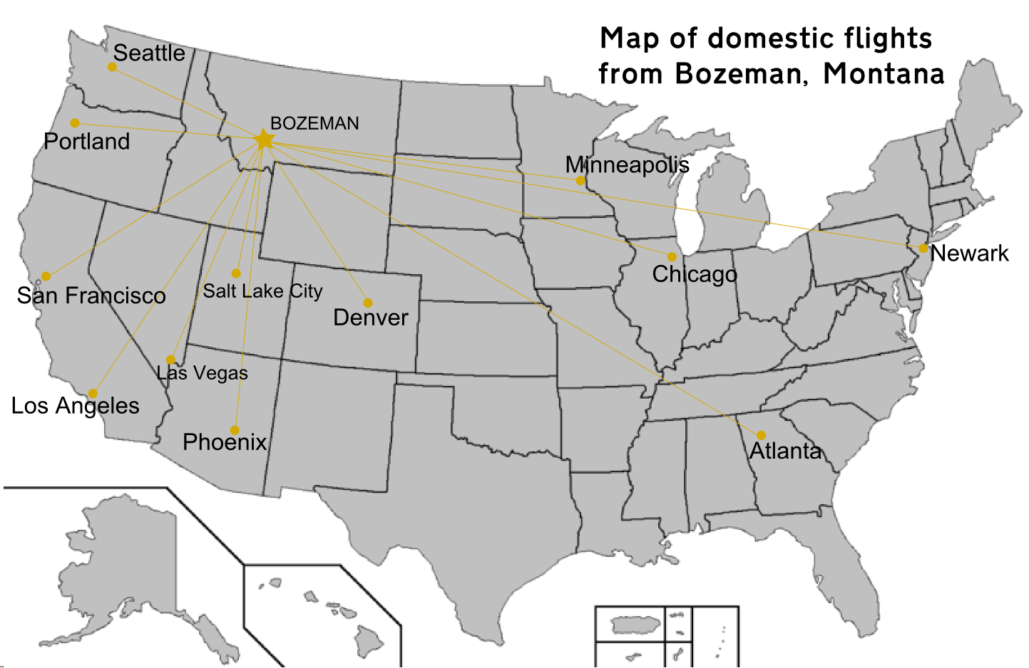 Map of domestic flights from Bozeman Yellowstone International Airport. Adapted from Blank map of the United States.PNG